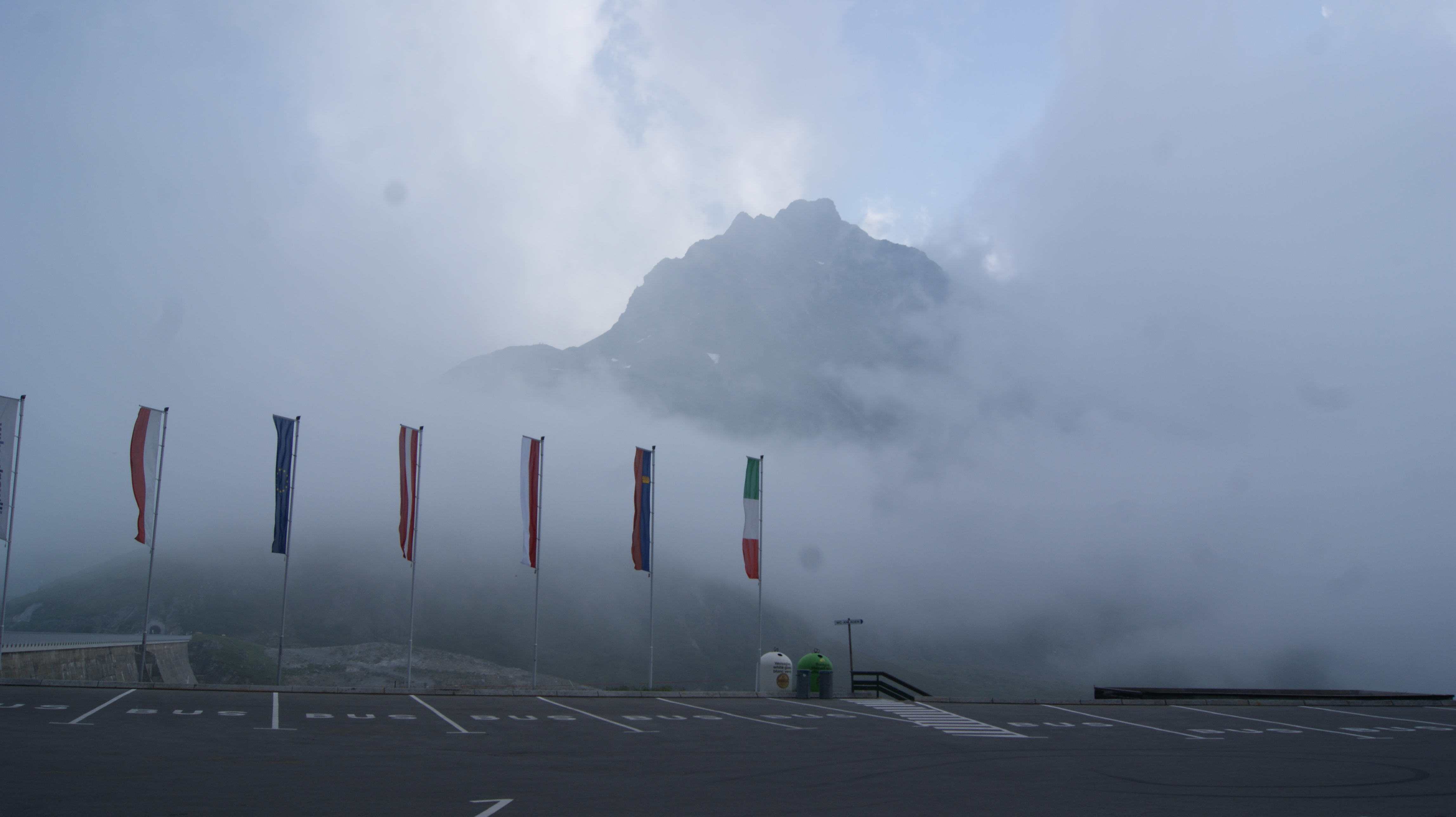 "Lobspitzen", a mountain's crest in Partenen, Vorarlberg, Austria.